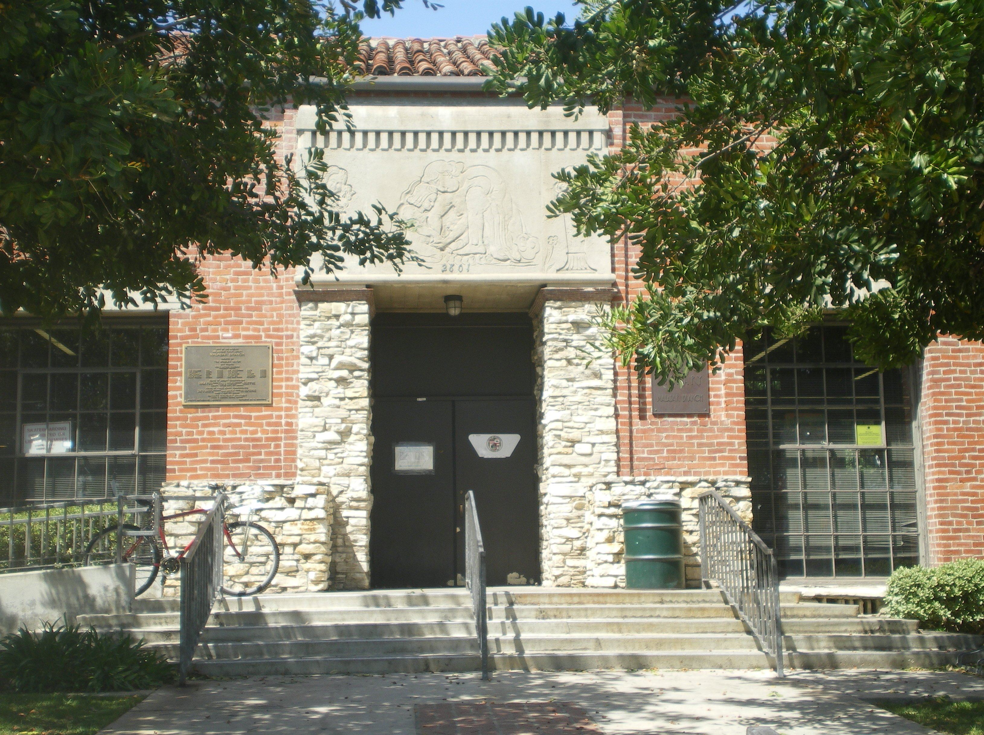 Entrance — Malabar Branch Library (built 1926). 2801 Wabash Ave., Boyle Heights, Los Angeles, California. Los Angeles Historic-Cultural Monument and on the National Register of Historic Places.